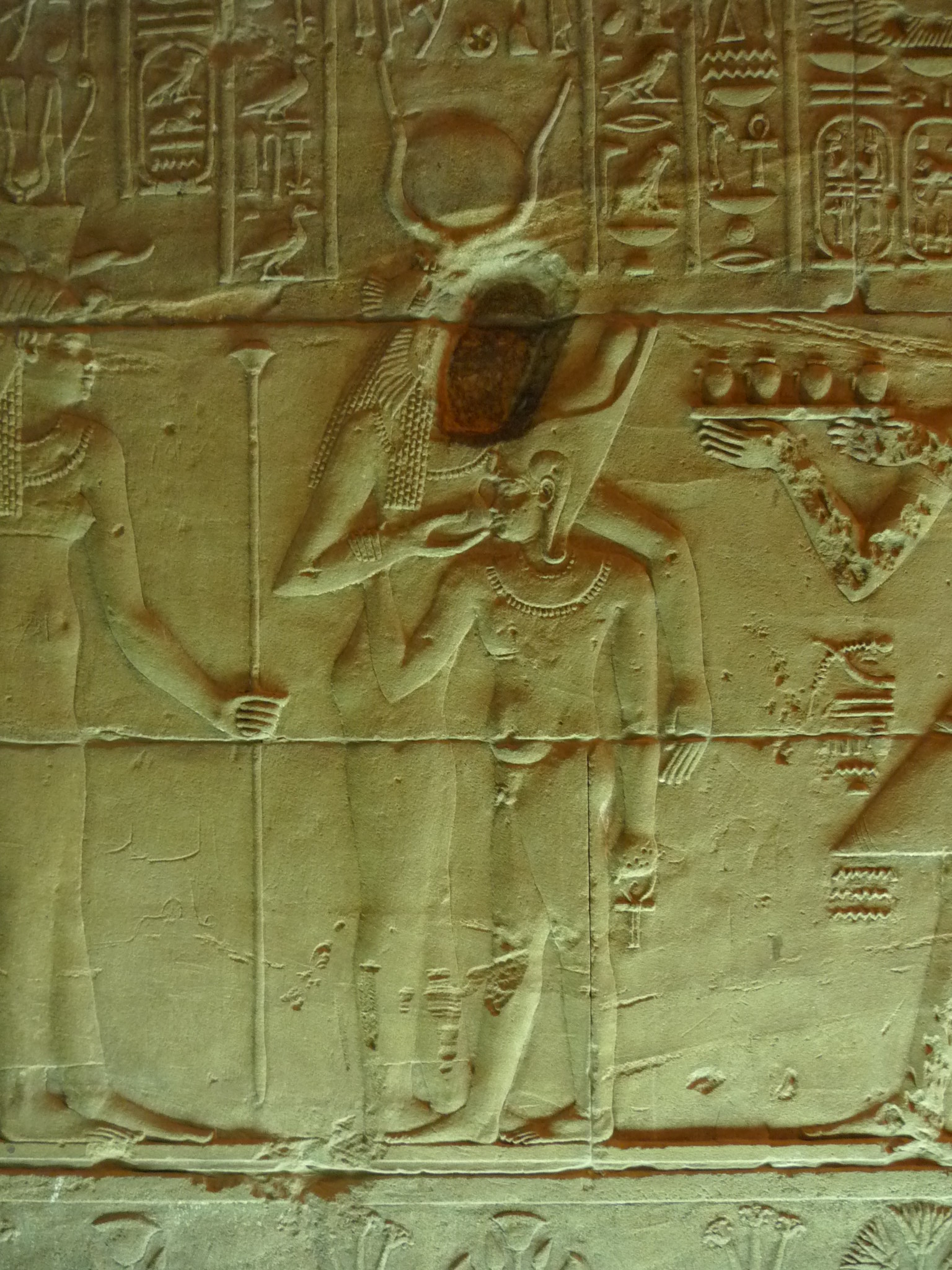 Isis breast-feeding youg Horus in naos, Isis Temple, Philae Island, Egypt